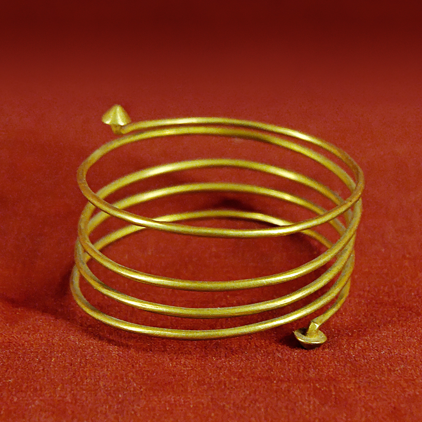 "Spiral" (actually helical) bracelet. Gold, southwestern France, 5th-3rd centuries BC. Found in 1873 in the Sos Valley, near Tarascon-sur-Ariège (Pyrenees, France).